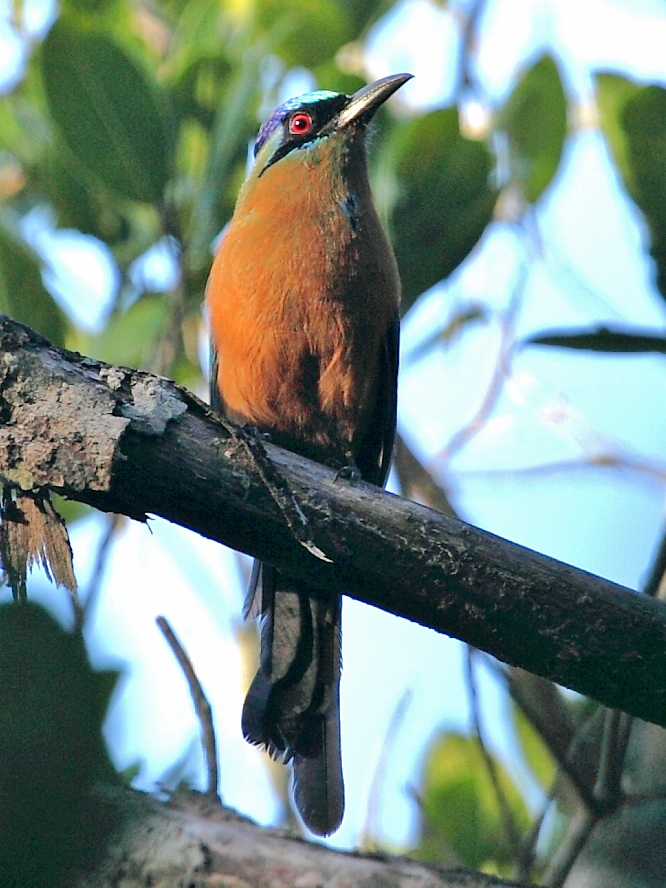 Amazonian motmot; Bonito, Mato Grosso do Sul, Brazil